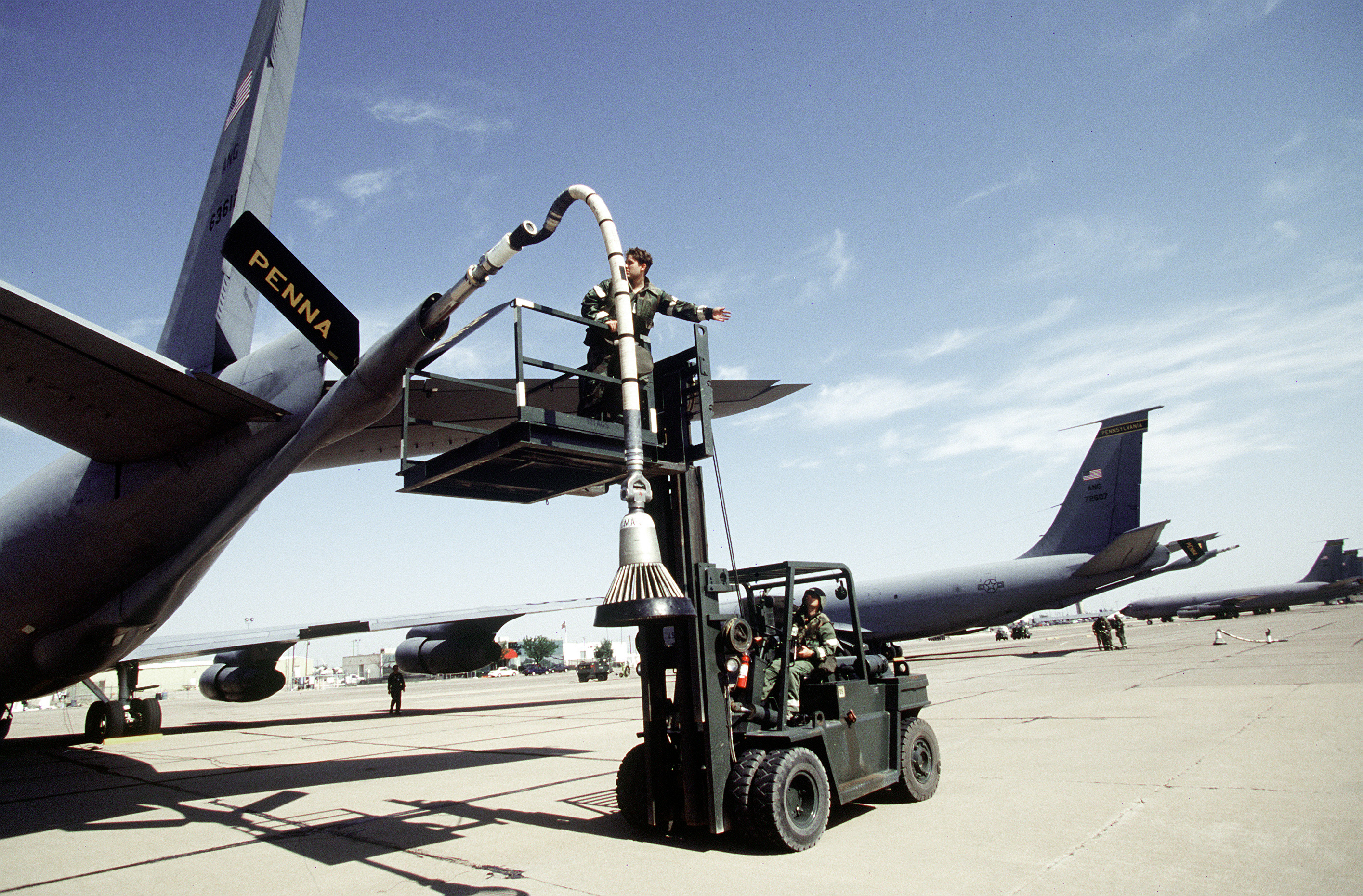 Boeing KC-135E Stratotanker with Boom Drogue Adapter (BDA) Original caption: Aircraft maintenance personnel with the 171st Air Refueling Wing, Pittsburgh, Pennsylvania Air National Guard at Midland International Airport, Texas attach the refueling basket to the KC-135E tanker boom to allow refueling of the F/A-18 Hornets with the VFA-151 Fighter Attack Wing, Naval Air Station Lemoore, California during Roving Sands '96, the US military's largest annual joint air defense training exercise.